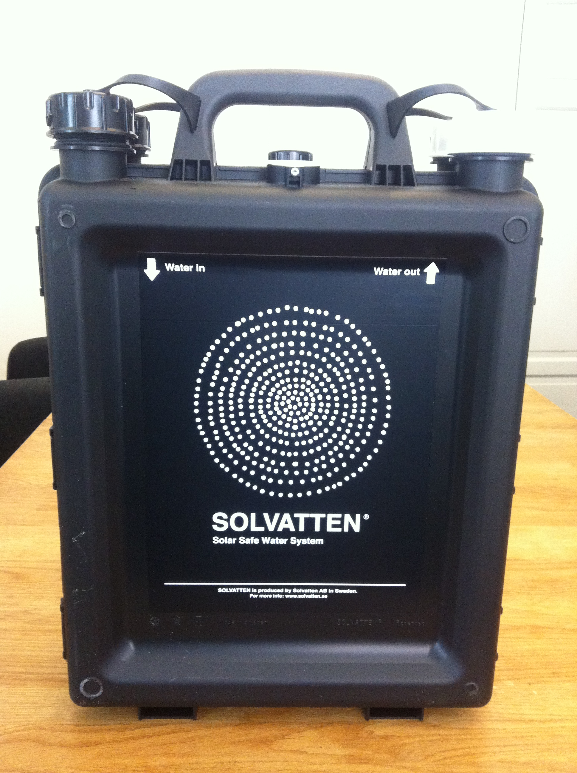 A picture of a SOLVATTEN unit